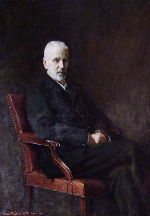 Portrait of Claude Montefiore (1858-1938)